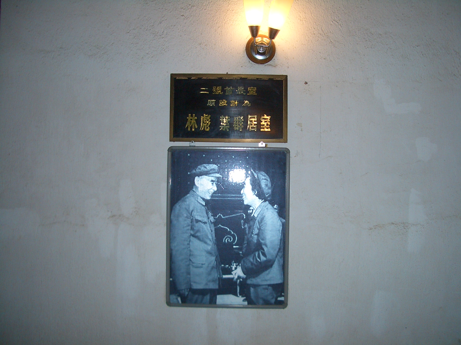 Offices said to have been intended for Lin Biao, the second-of-command of China's military (after Mao himself) in the Project 131 tunnel complex